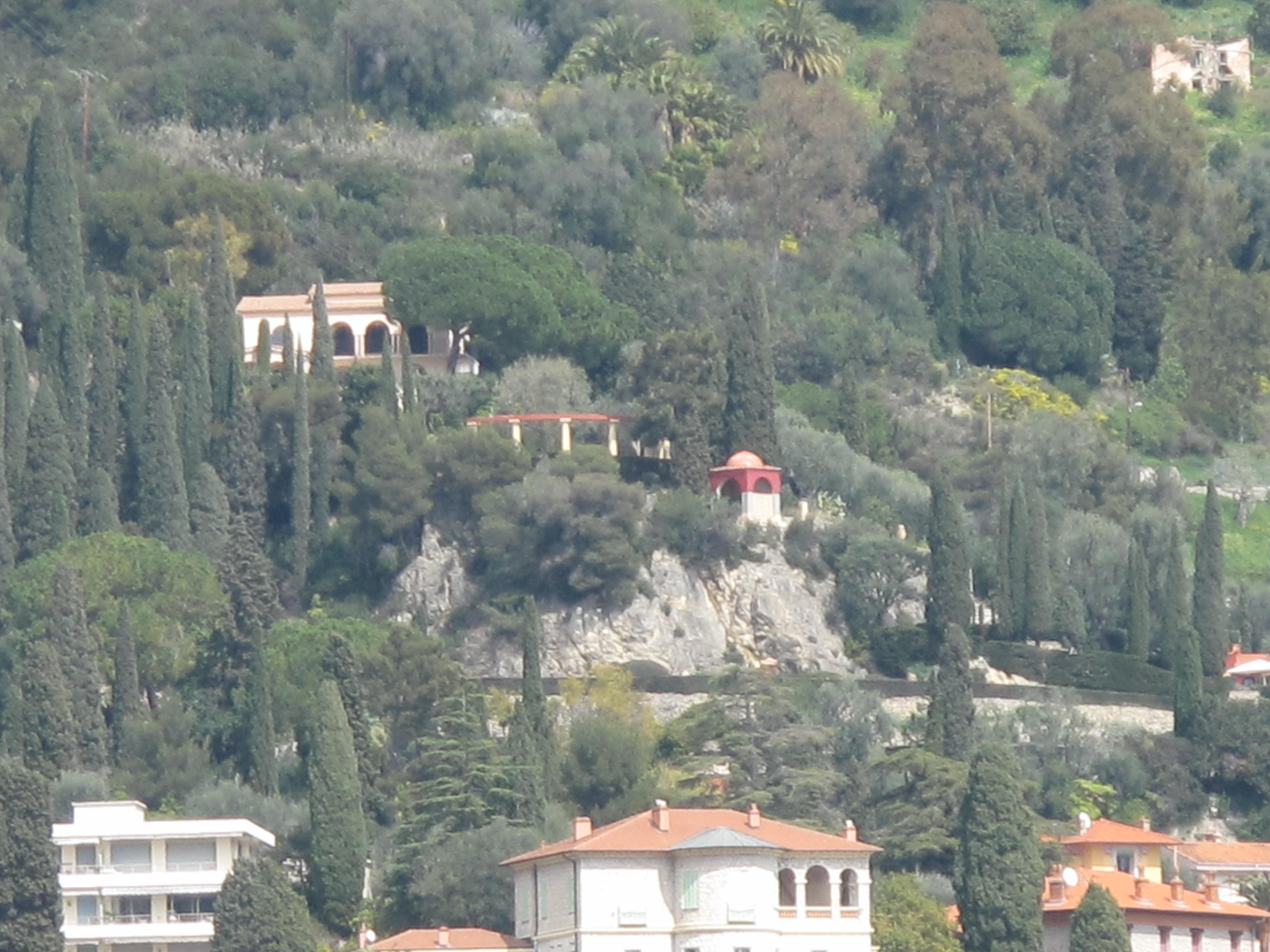 Remote view of the domaine des Colombières from the port of Menton (Alpes-Maritimes, France).